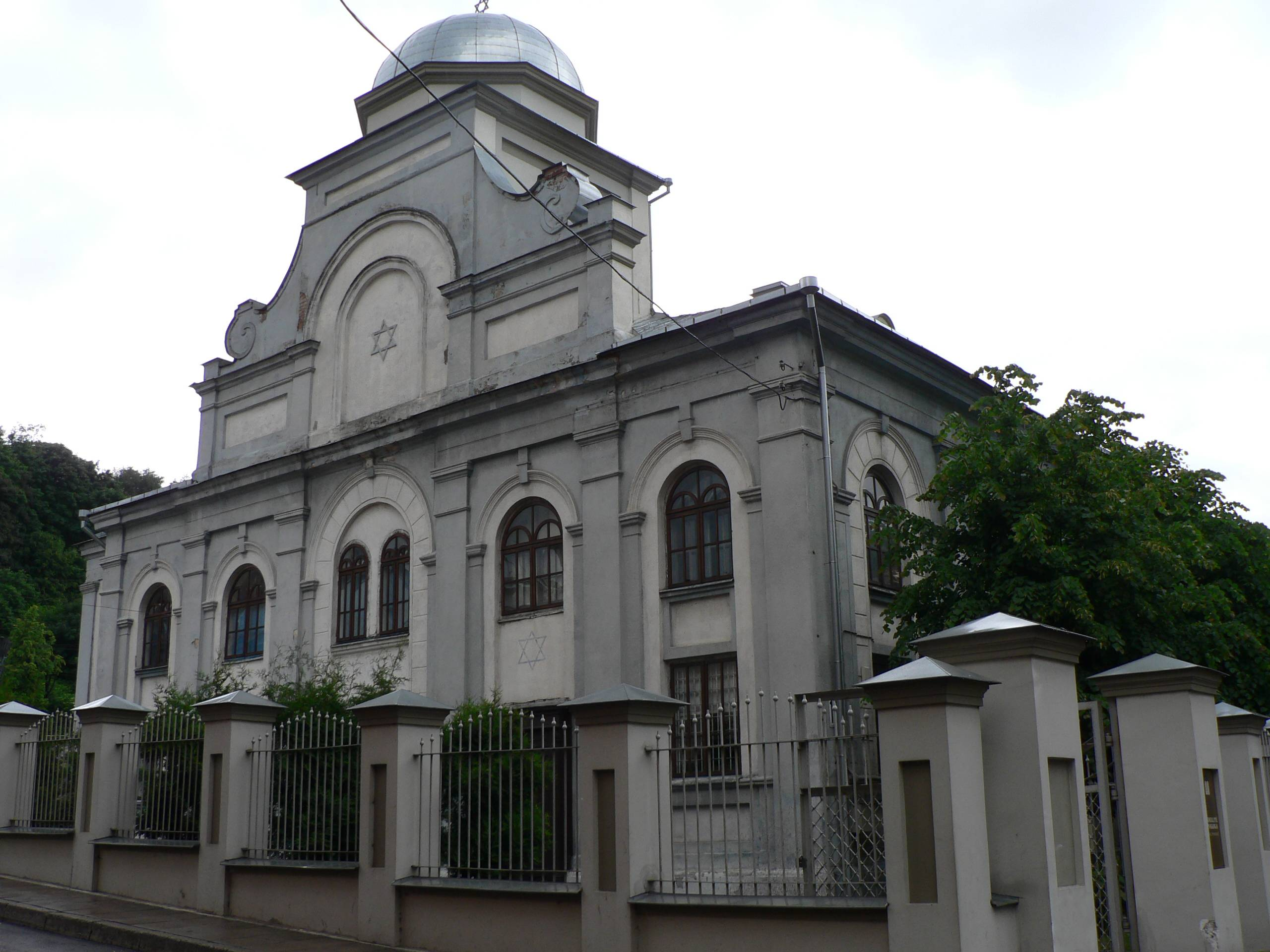 Kaunas Synagogue, Lithuania.